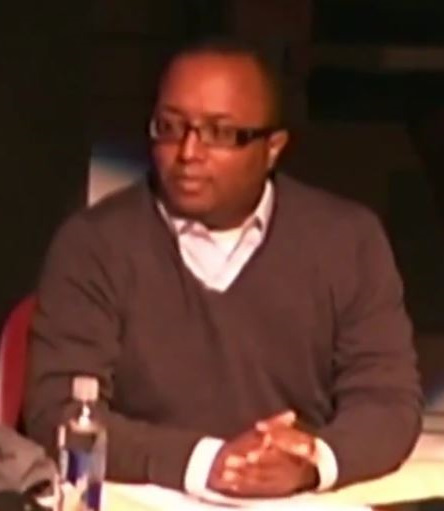 American playwright and theatre director Robert O'Hara at the Bootycandy Symposium by Playwrights Horizons